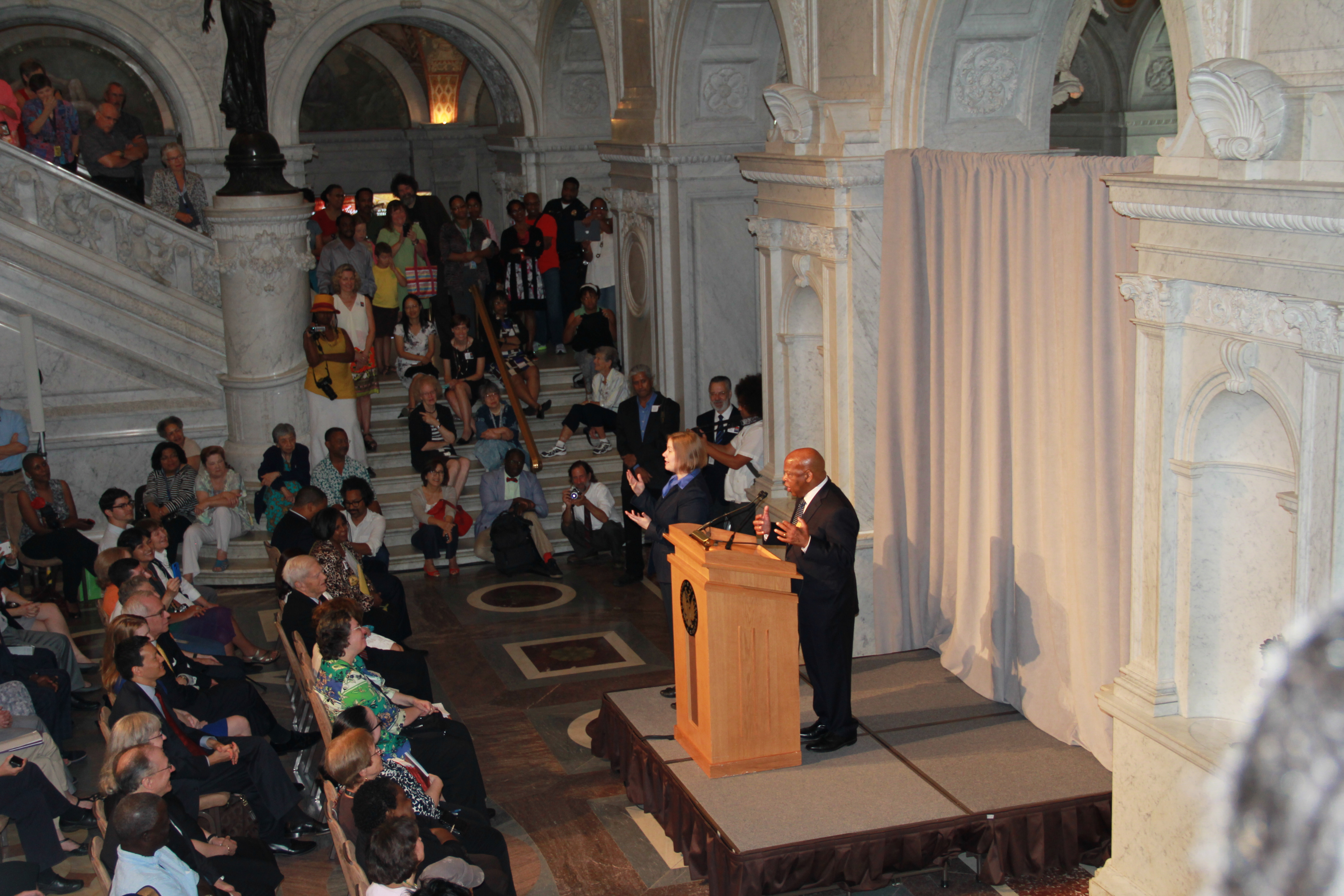 Photo taken at the 50th Anniversary of the Civil Rights March on Washington for Jobs and Freedom